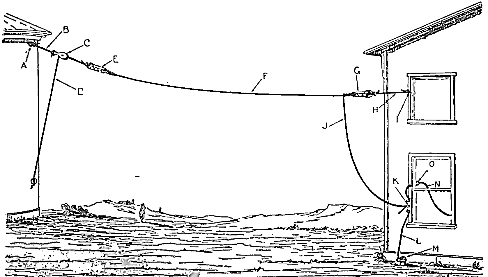 Diagram of an Inverted-L wire shortwave antenna showing parts. The inverted L is used as a transmitting and receiving antenna on the longwave, medium wave and shortwave bands by short wave listeners and radio amateurs. It consists of a wire strung between two supports with insulators at the ends to insulate it from the supports, with a vertical wire attached at one end which drops down and connects to the transmitter or receiver. This example from 1922 also has a lightning grounding switch to attach it to a ground connection during lightning storms for safety.Caption: AN INVERTED L ANTENNA ADJUSTED BETWEEN TWO BUILDINGS It will be seen that there is a pulley adjustment that permits lowering of the antenna; or the tightening of it if it sways in the wind.Alterations to image: Erased parts list from white area and cropped bottom slightly.